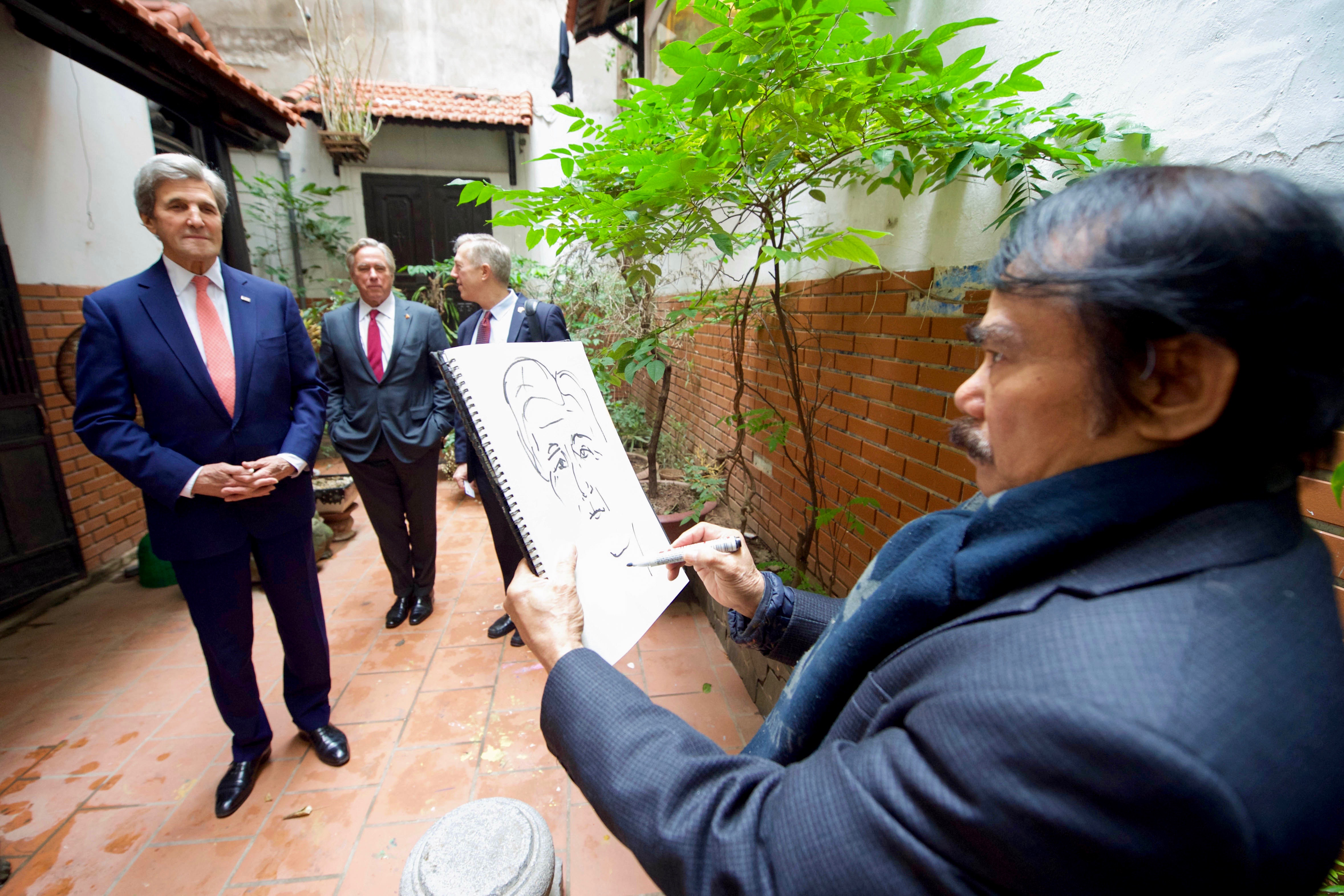 U.S. Secretary of State John Kerry admires a portrait drawn of him by Vietnamese artist Pham Luc on January 13, 2017, as the Secretary visited his studio in Hanoi, Vietnam, during his final trip abroad. [State Department photo/ Public Domain]